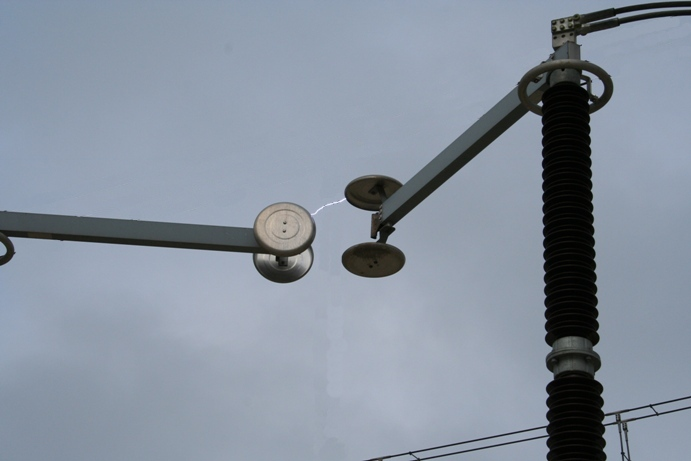 400kV air separation switch draws an arc during opening